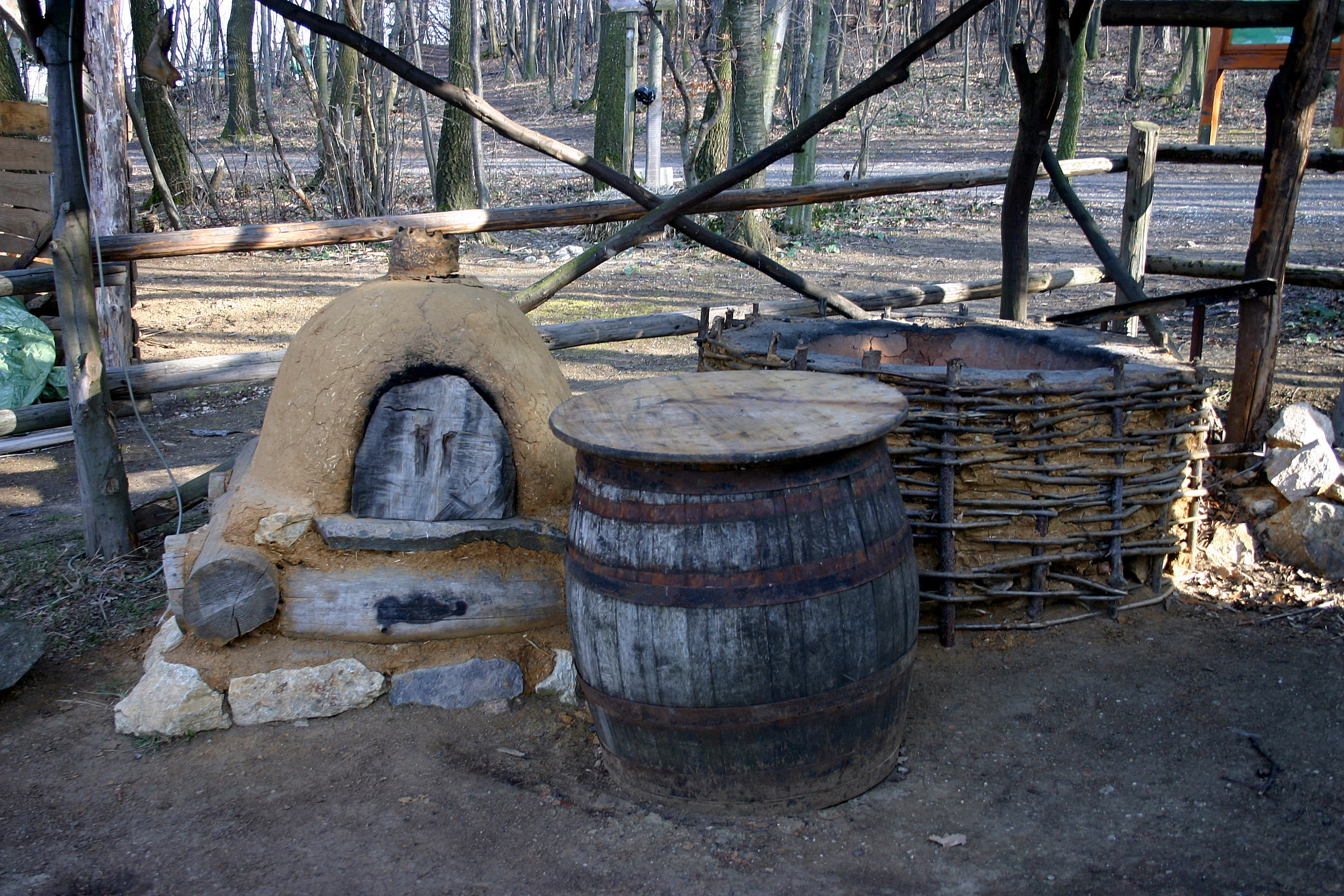 Schwarzenbach, Lower Austria (Austria), celtic museum.